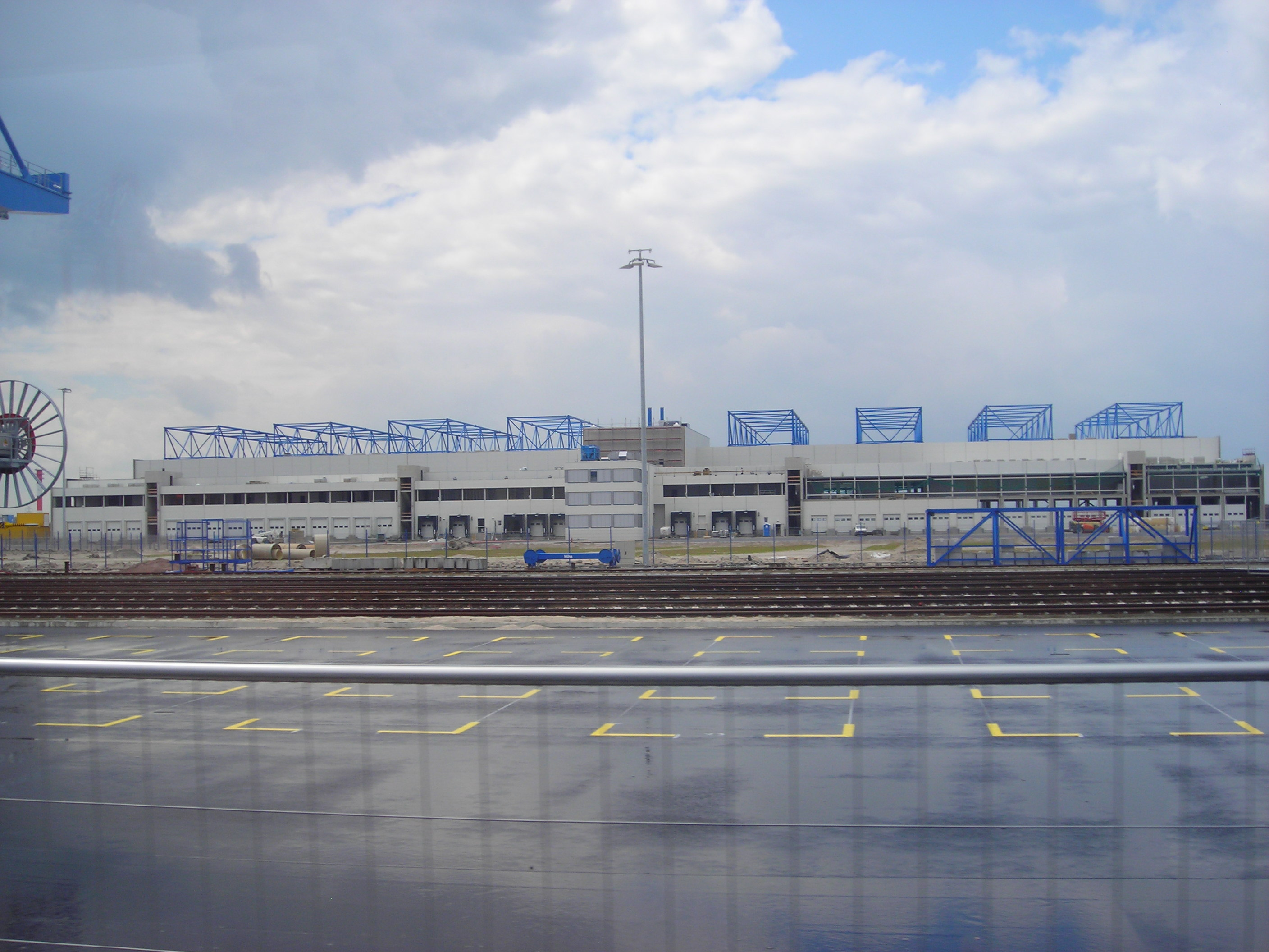 The Nordfrost terminal building (still under construction) at the JadeWeserPort. The forward wing, seen in the centre, will host the border control station.